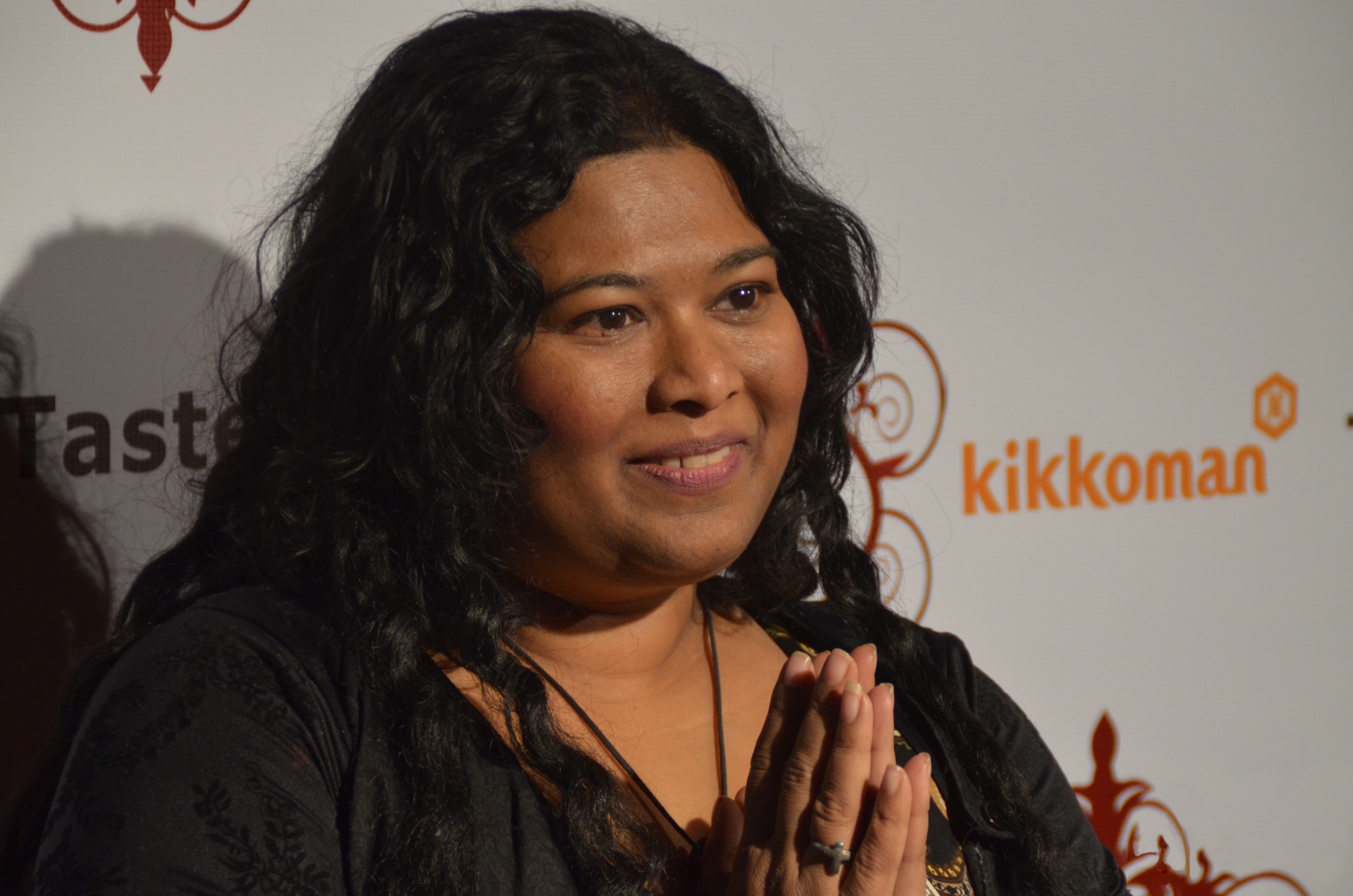 Actress Thushari Jayasekera at the 6th Annual Taste Awards honoring the best in food and wine at the Egyptian Theater in Hollywood.